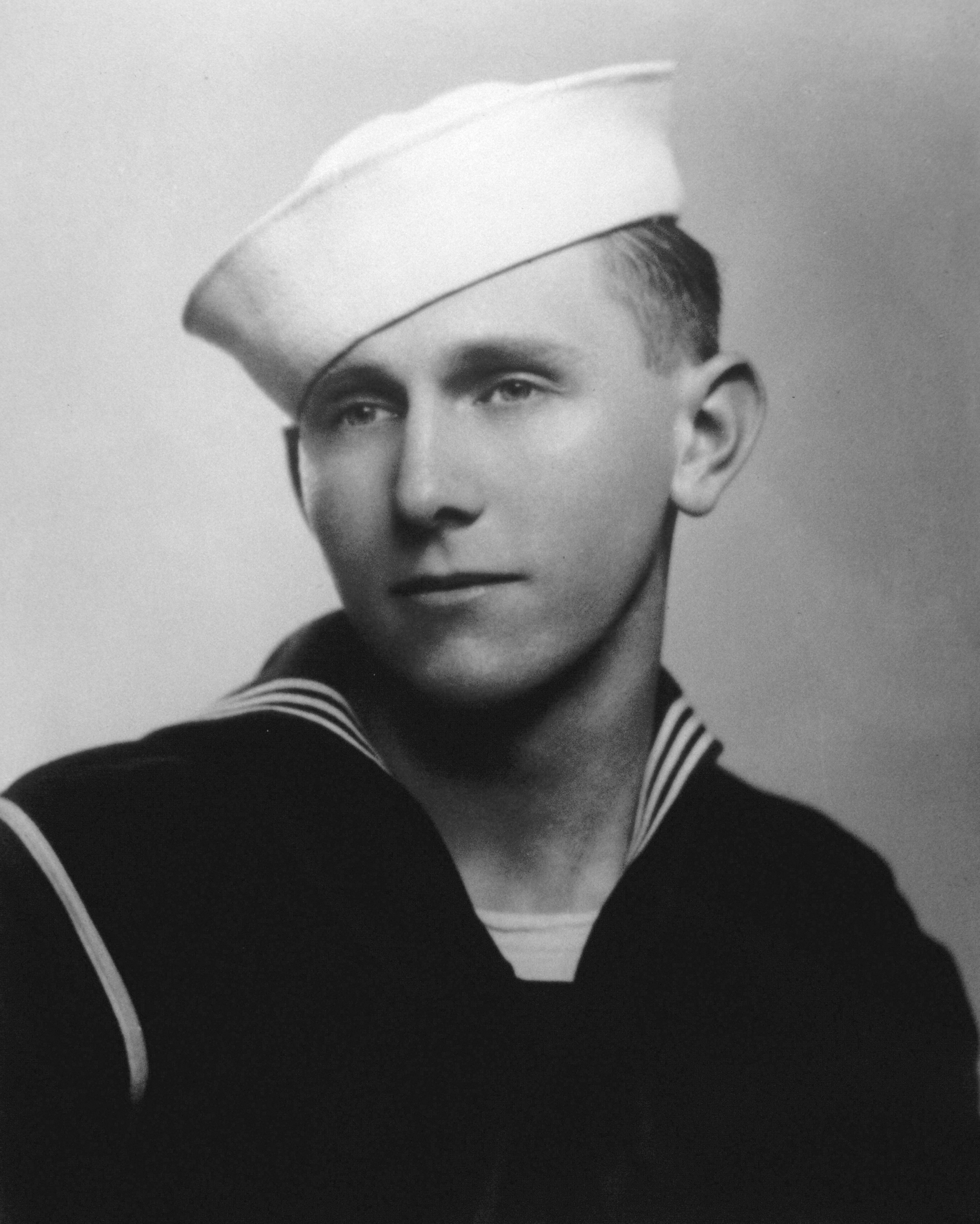 Douglas A. Munro, U.S. Coast Guard Medal of Honor awardee for actions on September 27, 1942 during the Action Along the Matanikau, near Point Cruz, Guadalcanal.